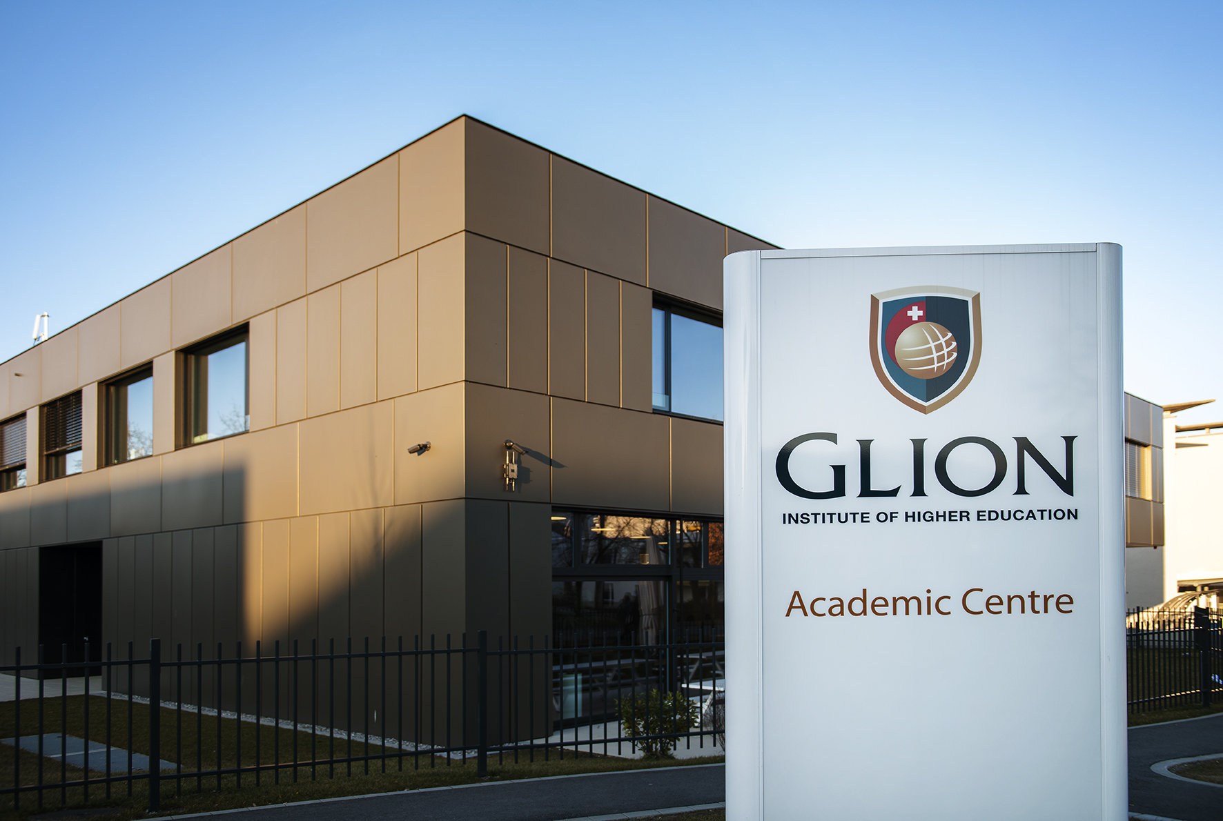 The Bulle campus is located in the town of Bulle in the Gruyère region. Opened in 1989, the Bulle campus has a range of facilities for students, including a library, study area, student lounge and catered restaurants.